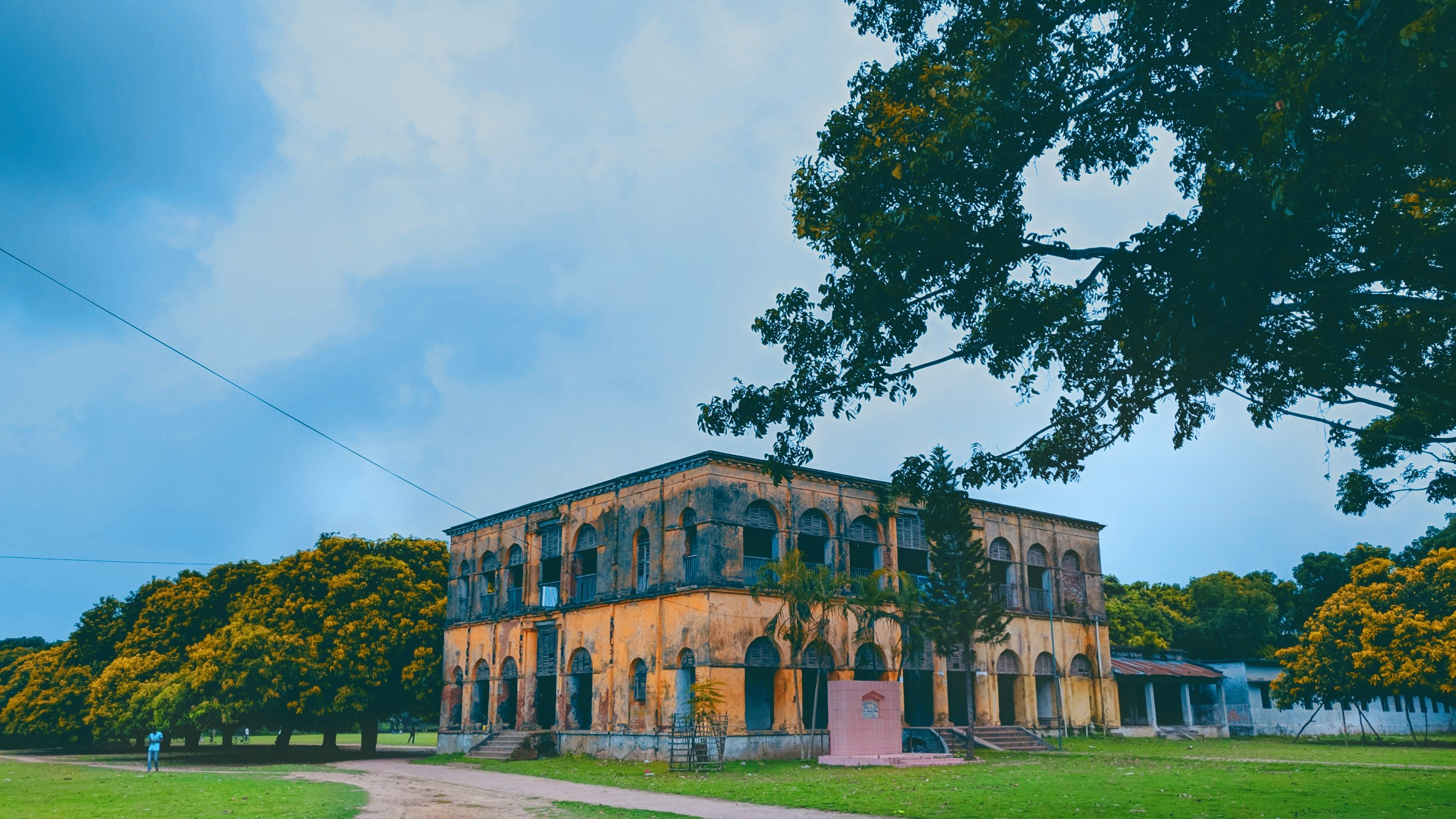 Front Side View of Main Office Building of Kotchandpur Govt. Model Pilot Secondary School.